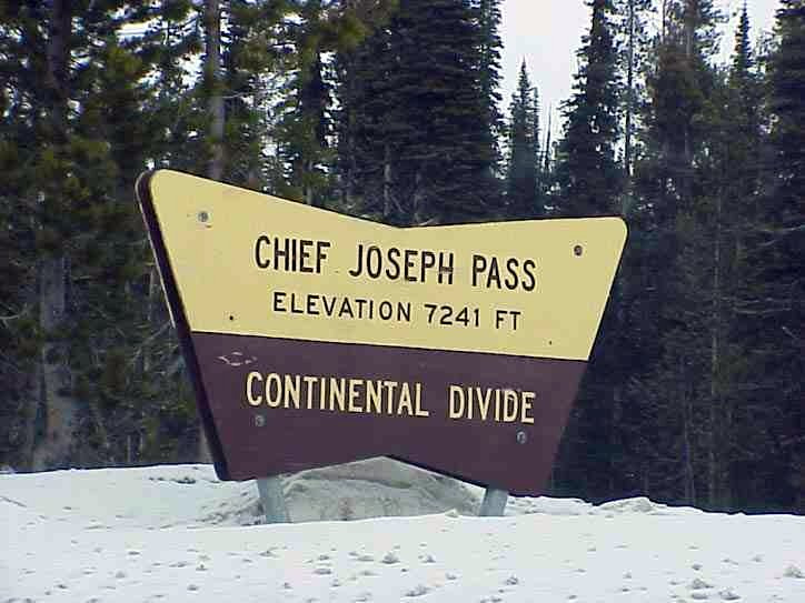 Photo of the Forestry Service sign at Chief Joseph Pass